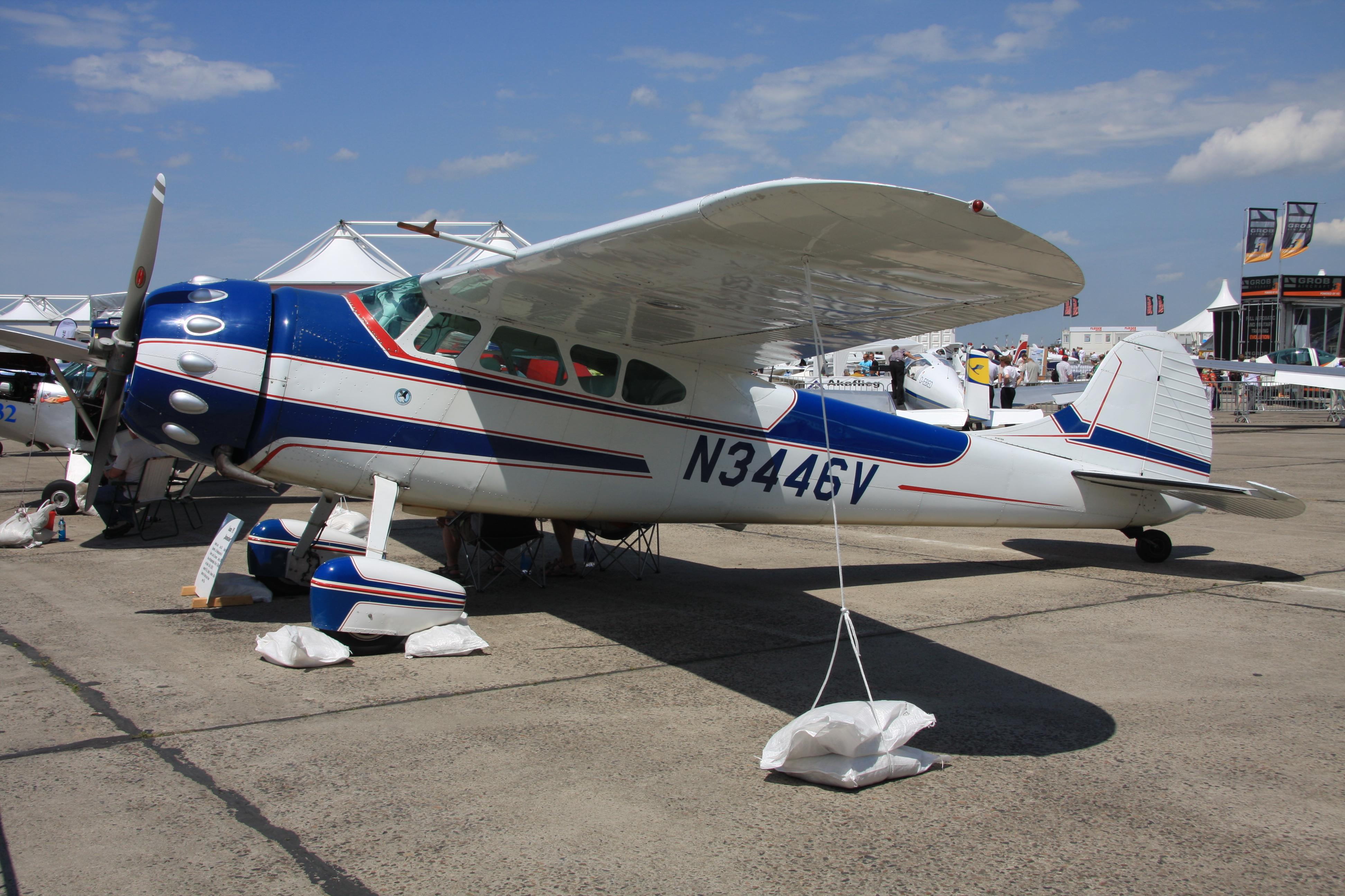 An Cessna 195 (picture taken during the International Air and Space Exhbition)